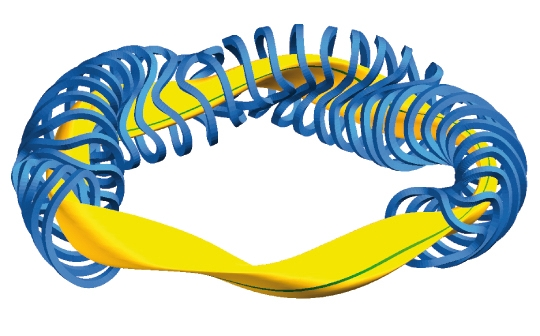 Scheme of coil system (blue) and plasma (yellow) of the nuclear fusion plasma experiment Wendelstein 7-X under construction at the Max-Planck-Institut für Plasmaphysik, Greifswald, Germany. For example a magnetic field line is highlighted in green on the plasma surface shown in yellow.